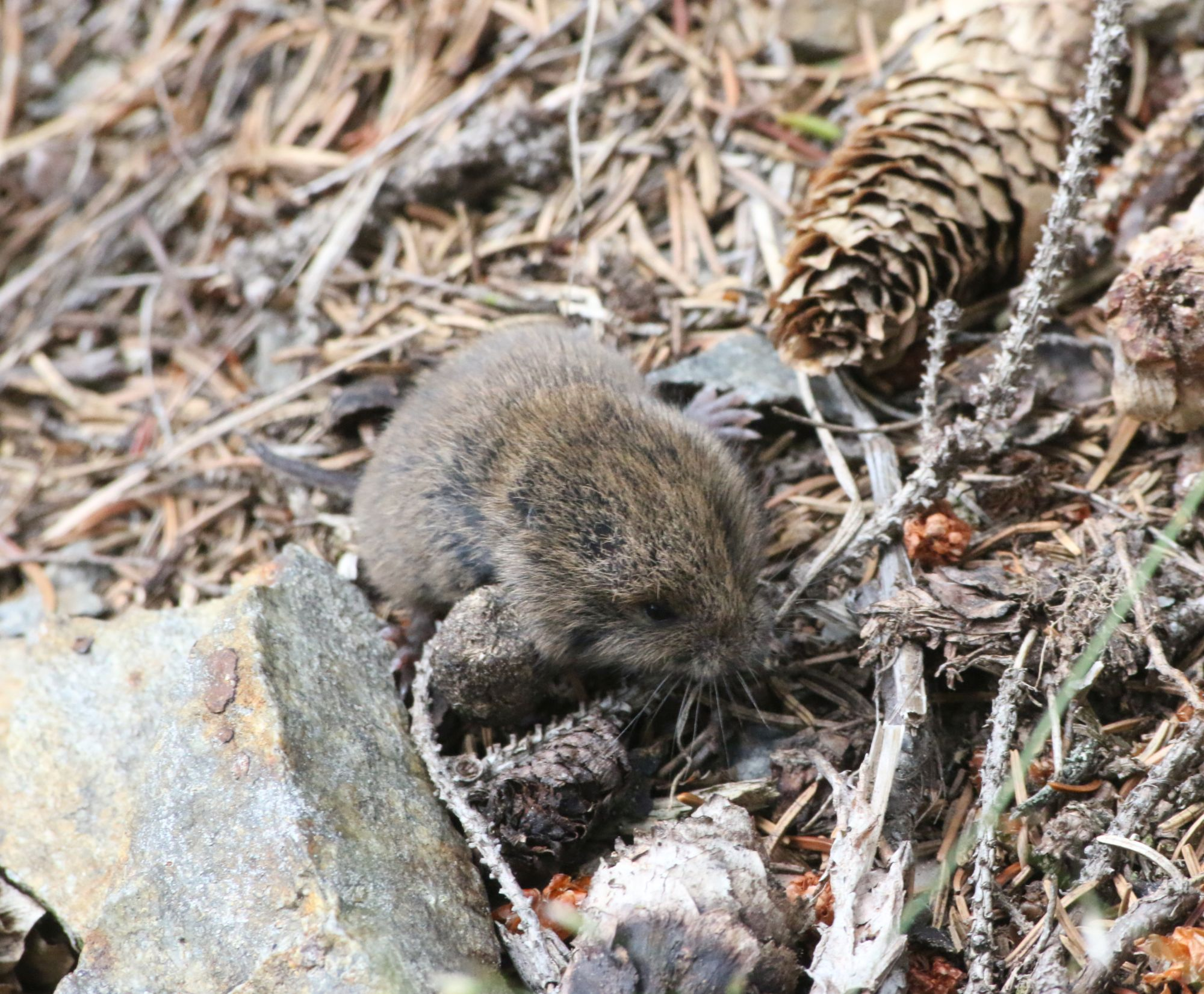 Microtus subterraneus in Obří důl valley, Krkonoše mountains, Czech Republic